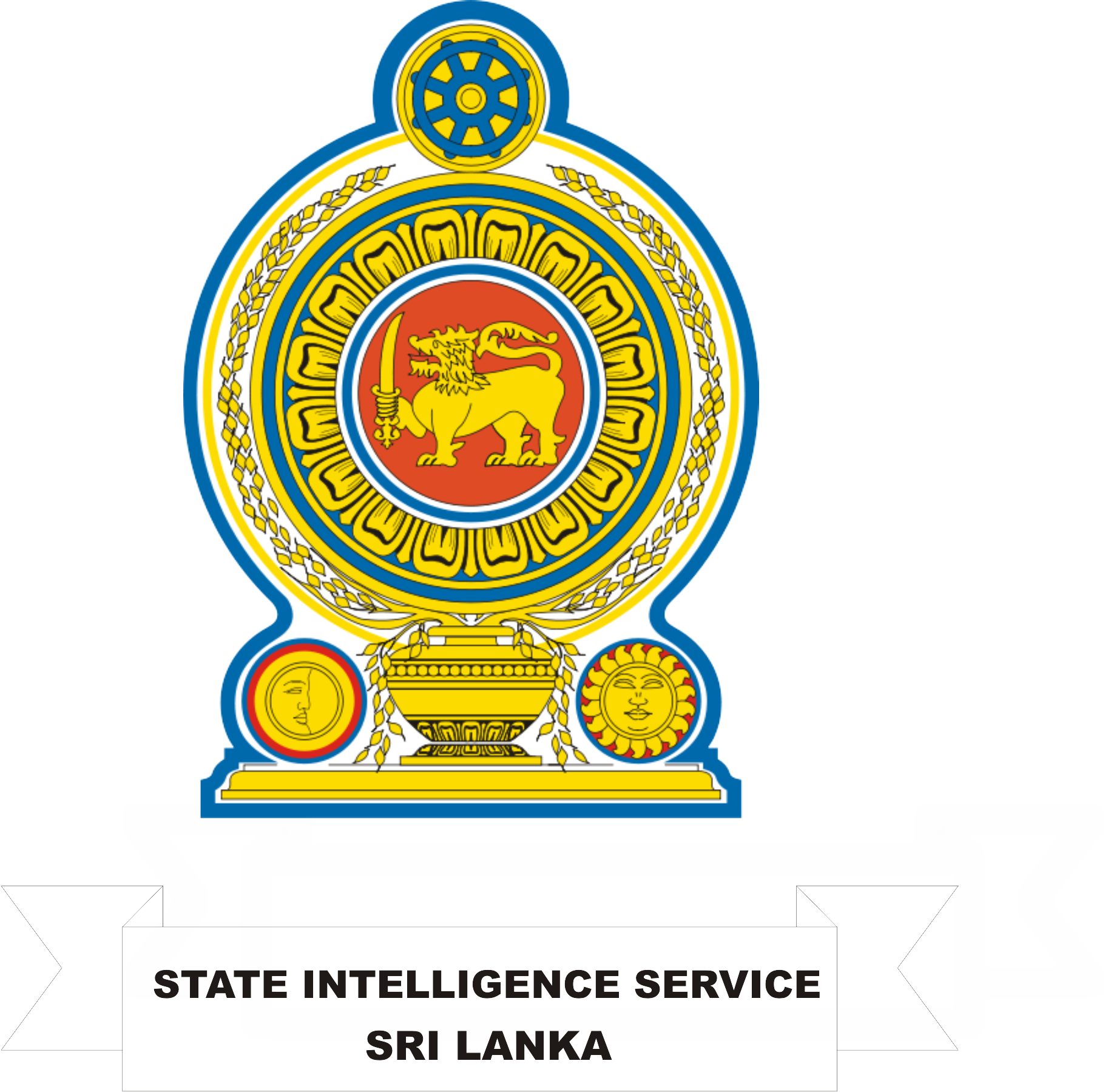 The Current Logo using SIS